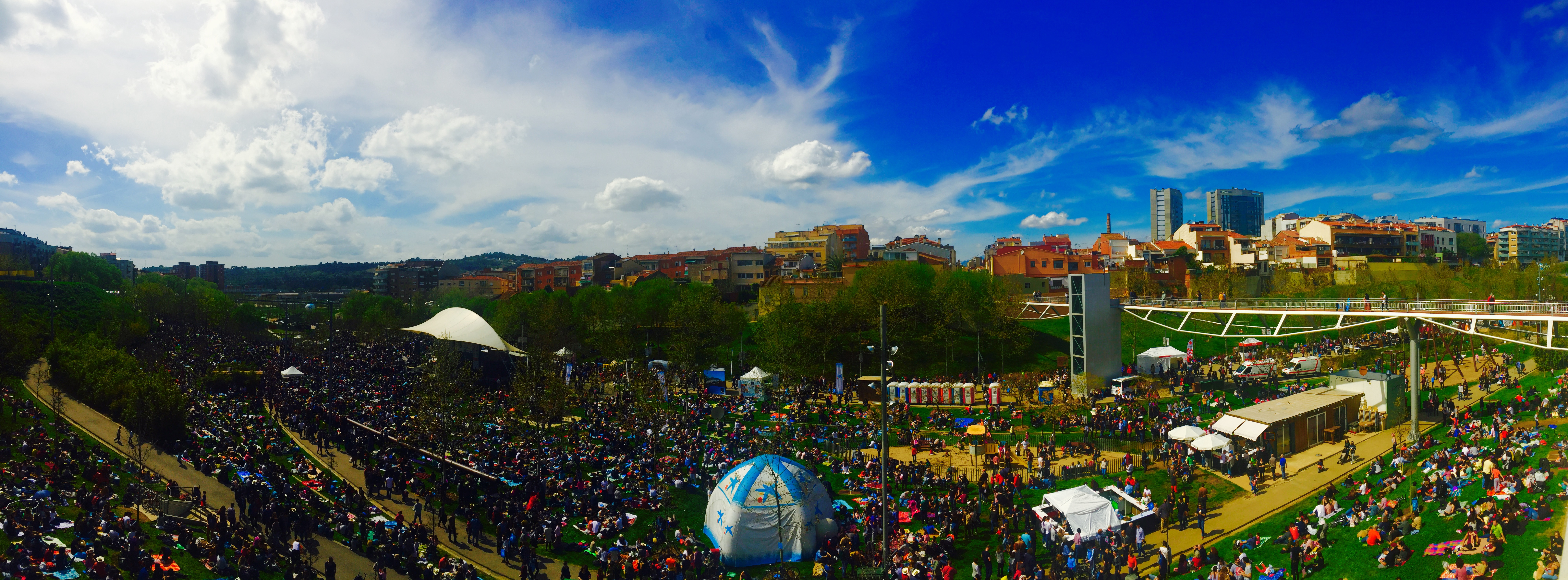 Picnic Jazz Festival in Terrassa, Spain